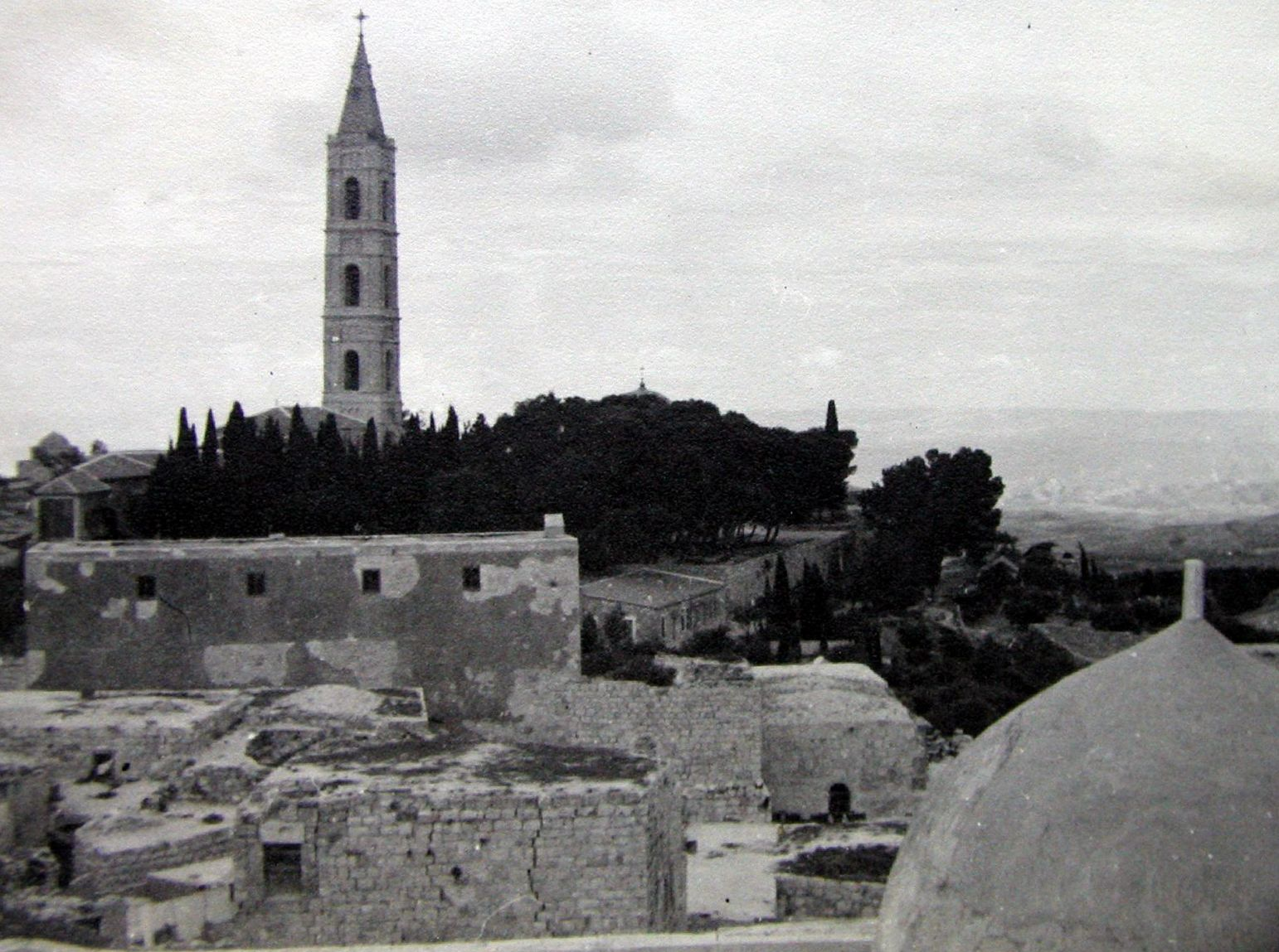 Russian Monastery on the Mount of Olives view. Jerusalem.